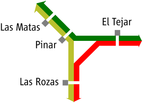 Las Rozas railways stations net map.